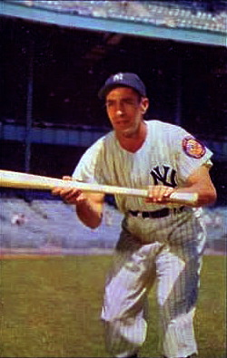 New York Yankees shortstop Phil Rizzuto in about 1953.